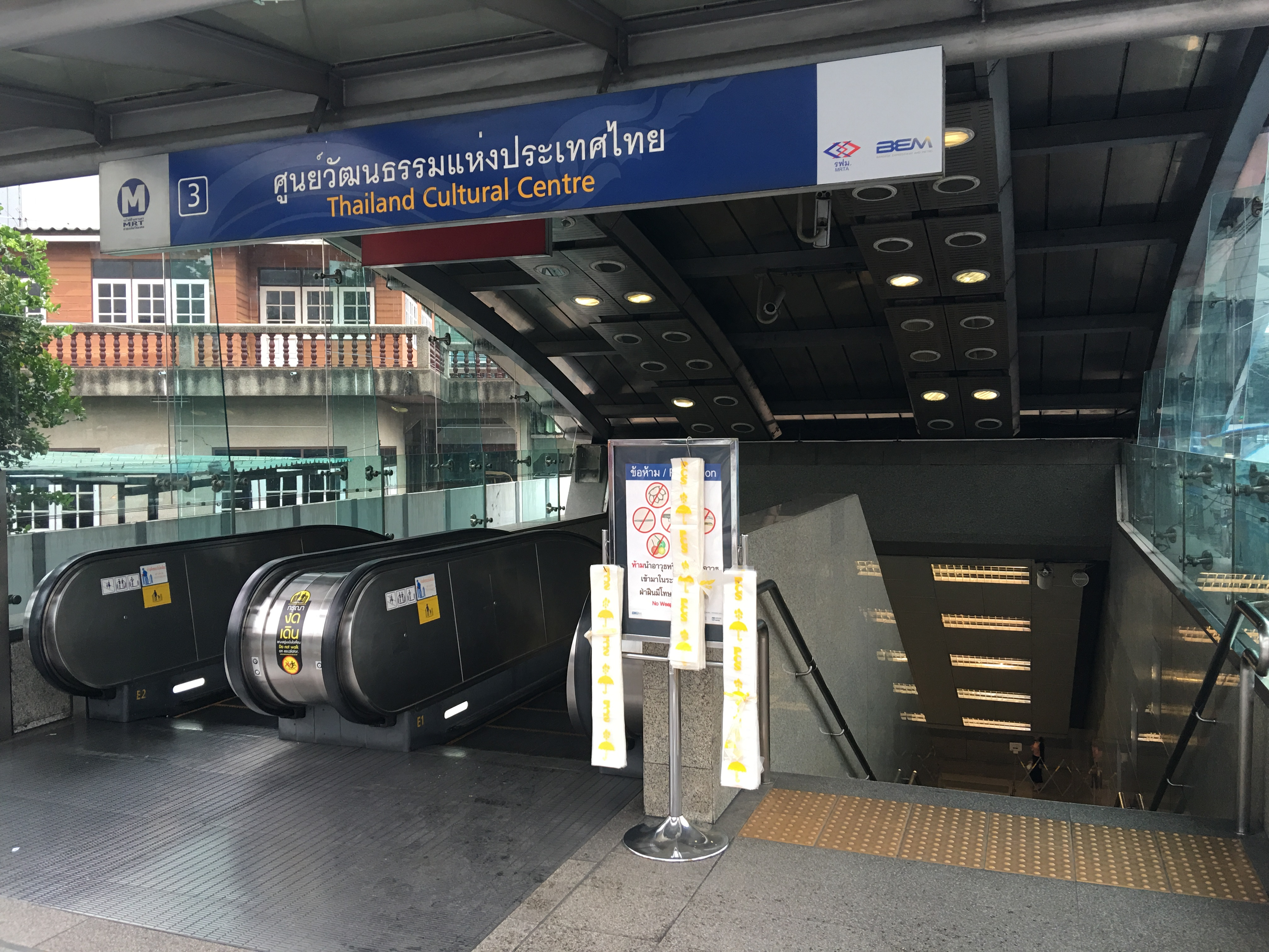 The entrance no.3 at Thailand Cultural Centre Station